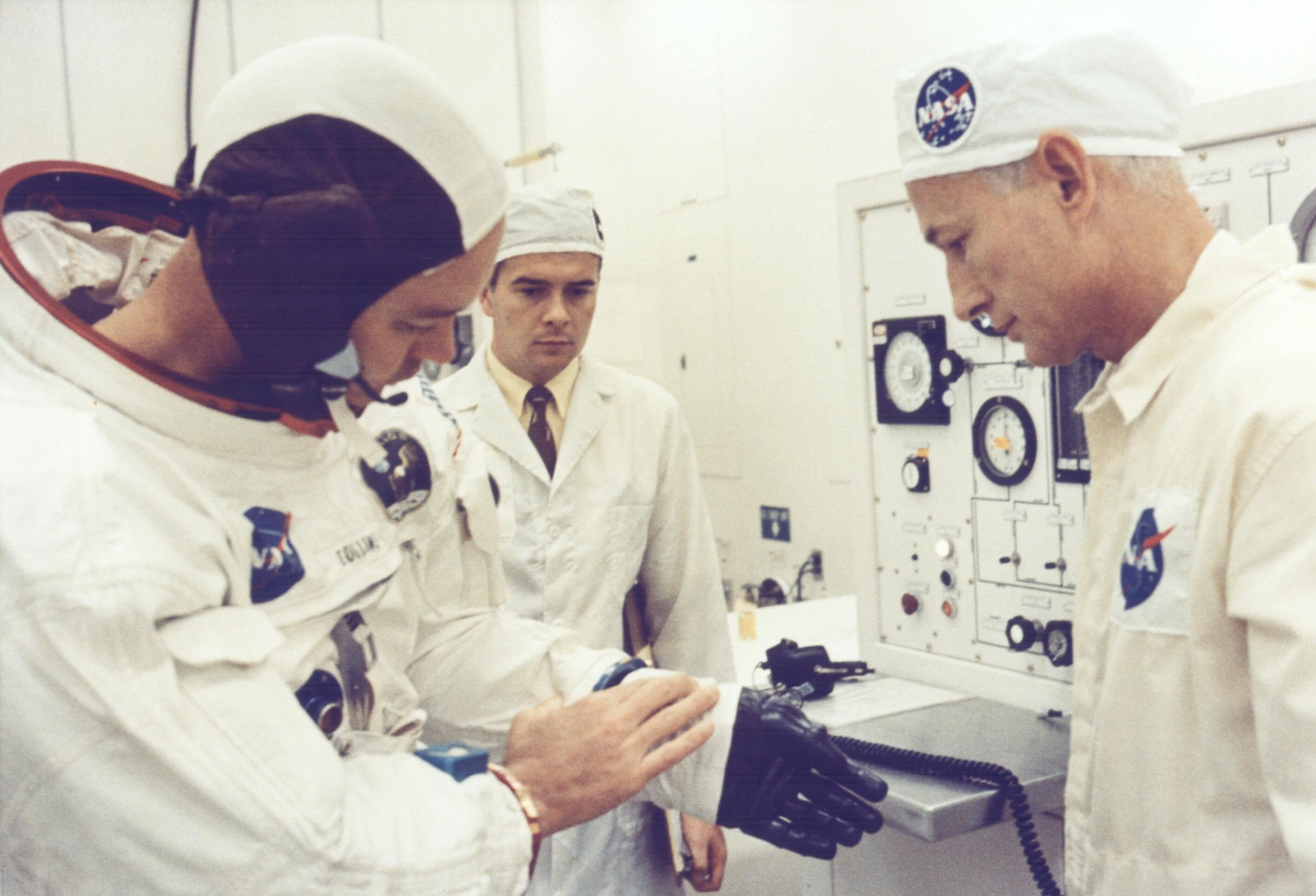 KENNEDY SPACE CENTER, FLA. - Apollo 11 Command Module Pilot Michael Collins appears to be explaining a point about his spacesuit glove to technician Joe Schmitt during suiting operations in the Manned Spacecraft Operations Building prior to the astronauts' departure to Launch Pad 39A. The three astronauts, Edwin E. Aldrin Jr., Neil A. Armstrong and Michael Collins will then board the Saturn V launch vehicle, scheduled for a 9:32 a.m. EDT liftoff for the first manned lunar landing.